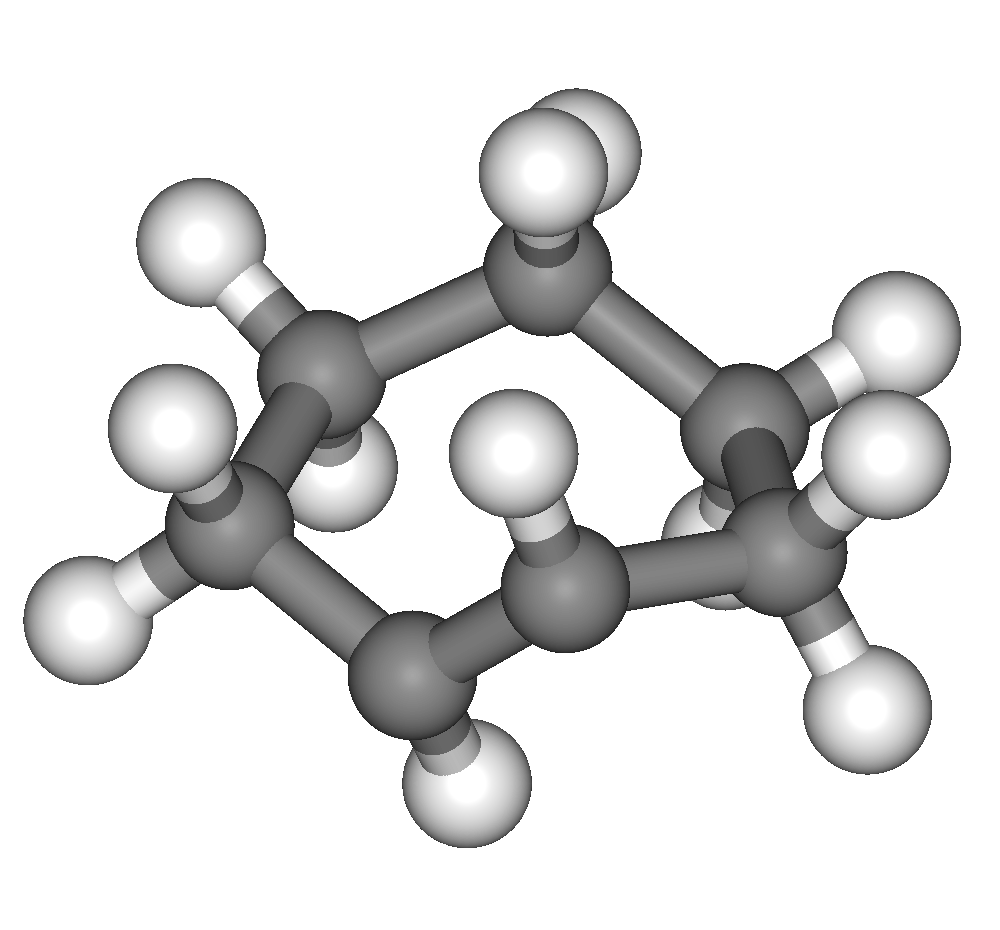 Trans-cycloheptene